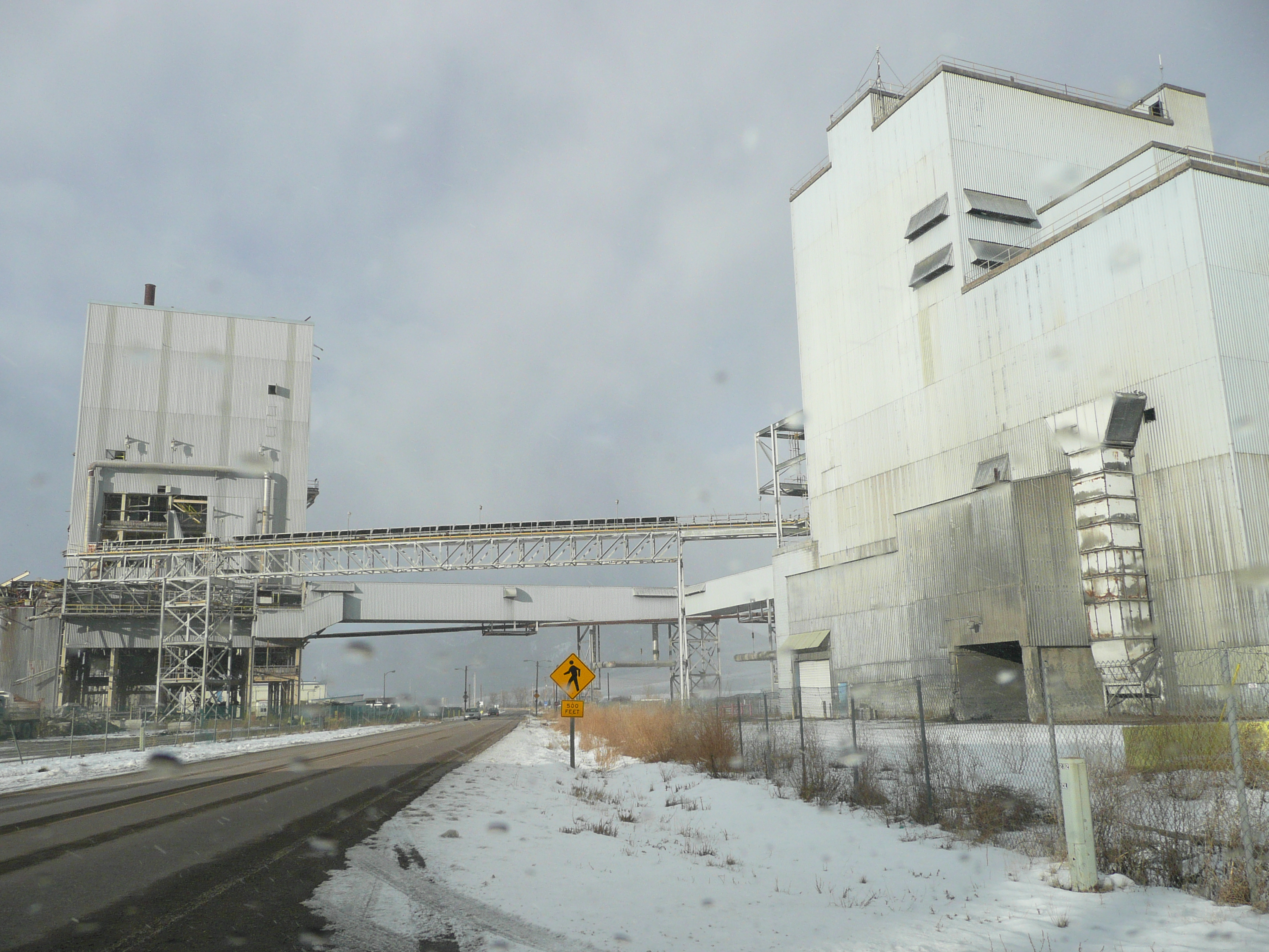 Frenchtown, Montana